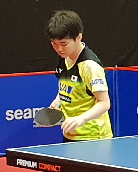 Satsuki Odo